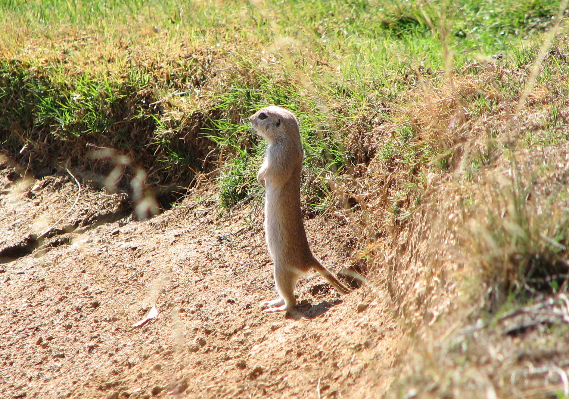 Round-tailed Ground Squirrel (Spermophilus tereticaudus), picture taken at Kierland Golf Club, Scottsdale, Arizona, USA